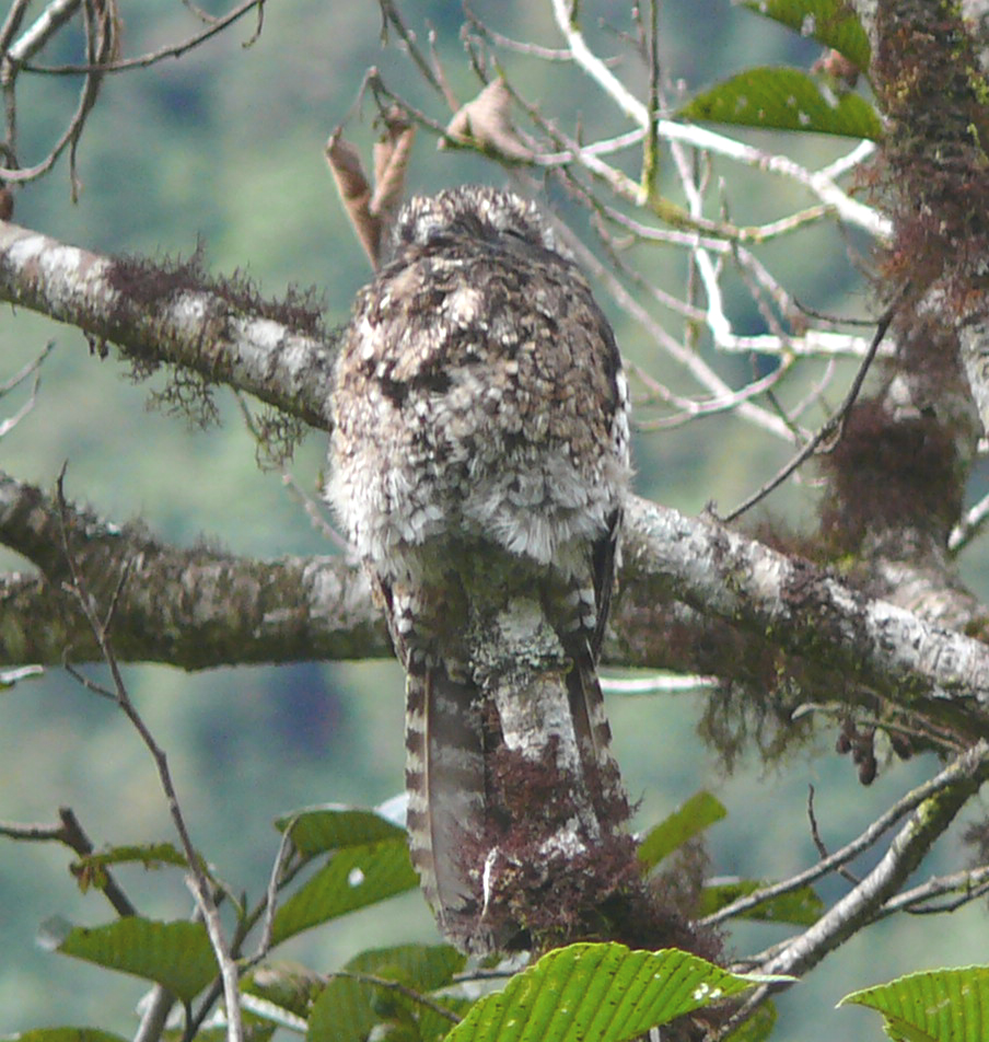 Andean Potoo Nyctibius maculosus on a branch